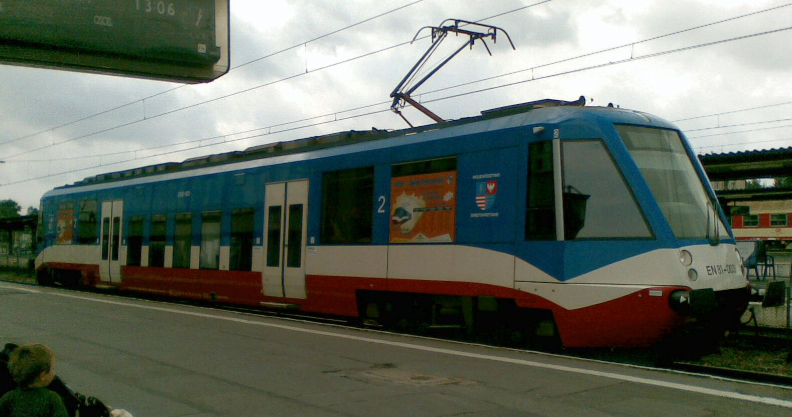 (PESA) EN81-003 in Kielce, Poland